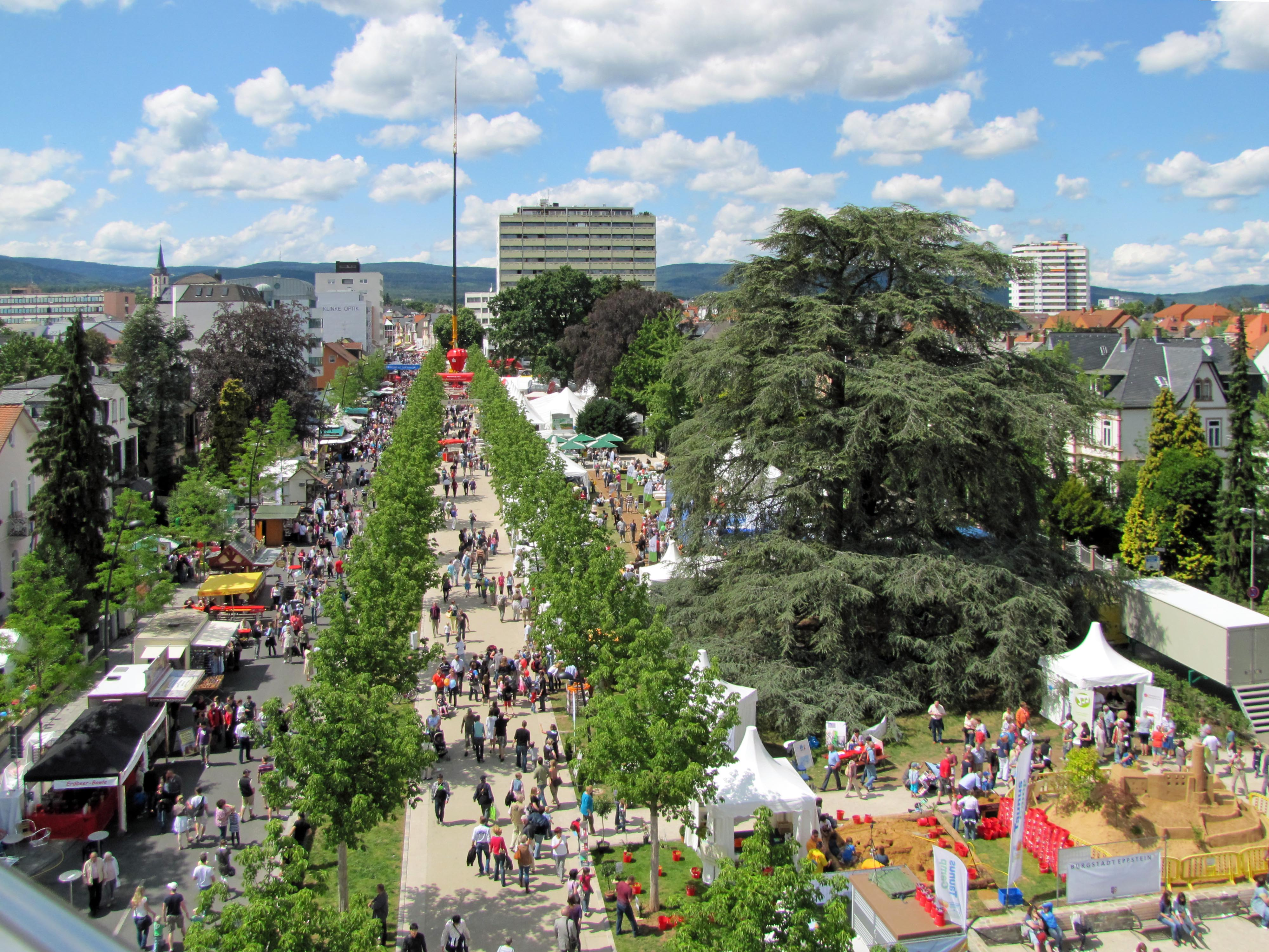 "Adenauerallee" and park at "Hessentag 2011" in Oberursel, Hochtaunuskreis, Germany.